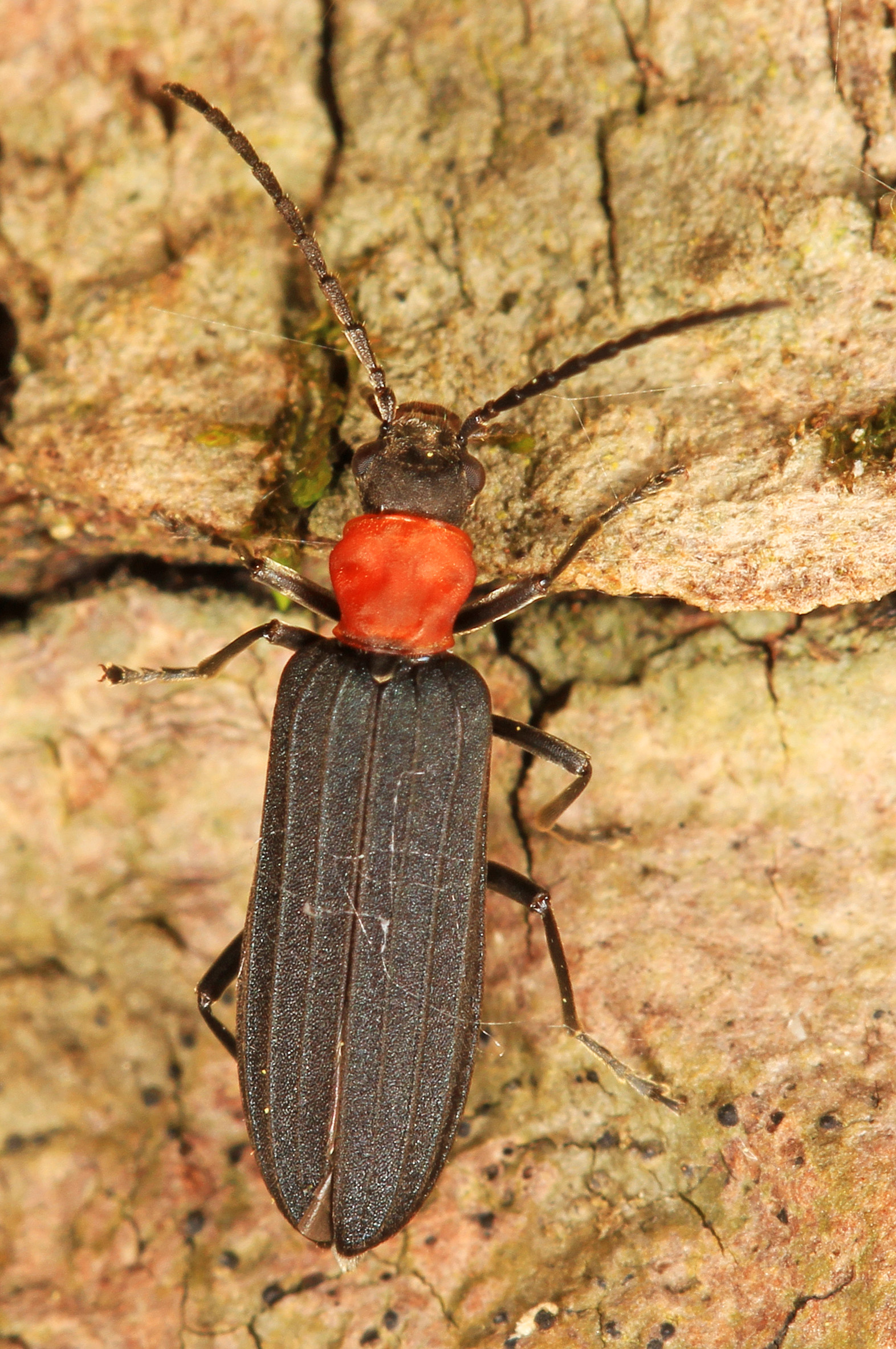 Red-necked False Blister Beetle - Asclera ruficollis, Leesylvania State Park, Woodbridge, Virginia.